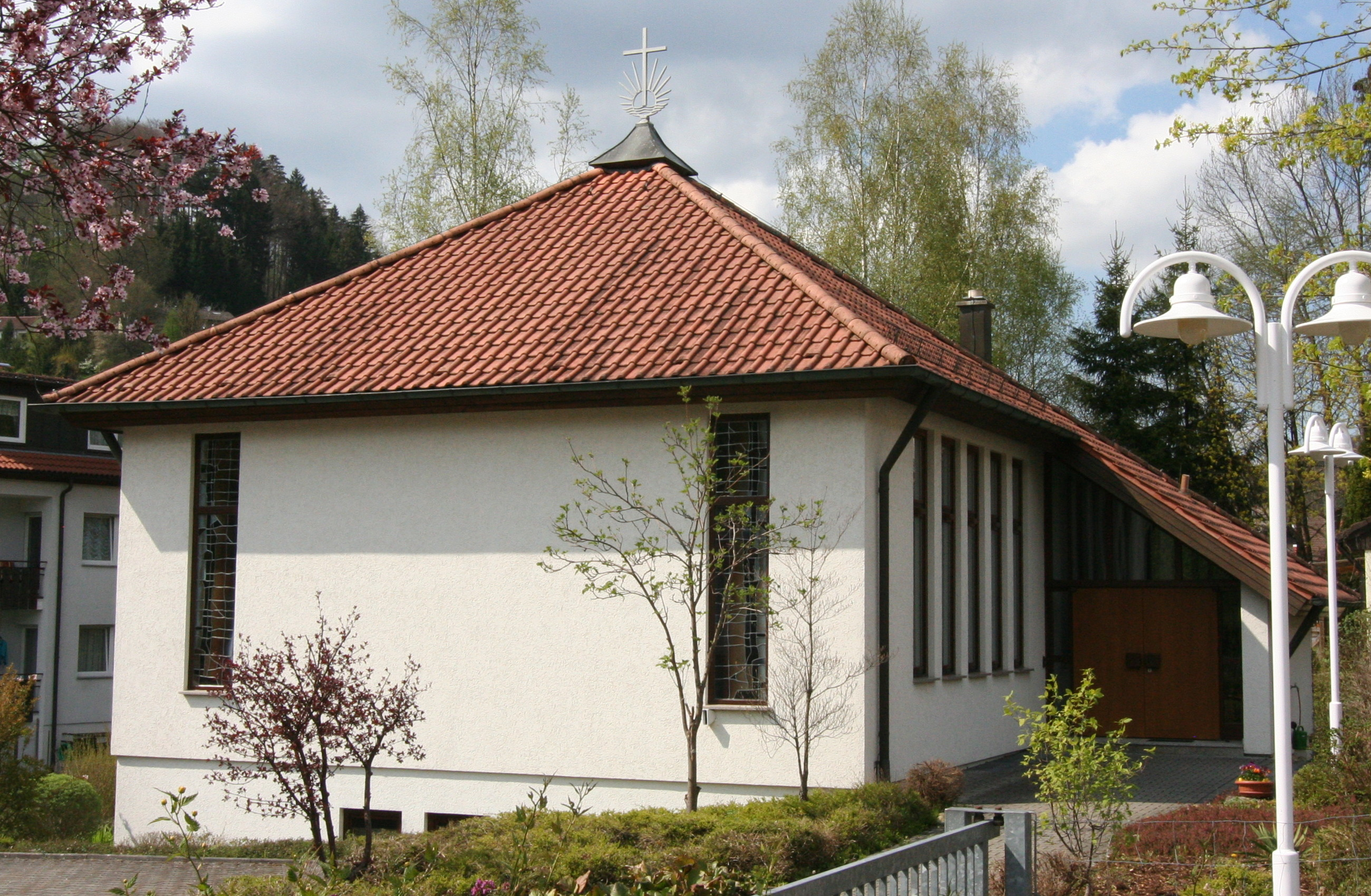 New Apostolic church in Wüstenrot-Neulautern